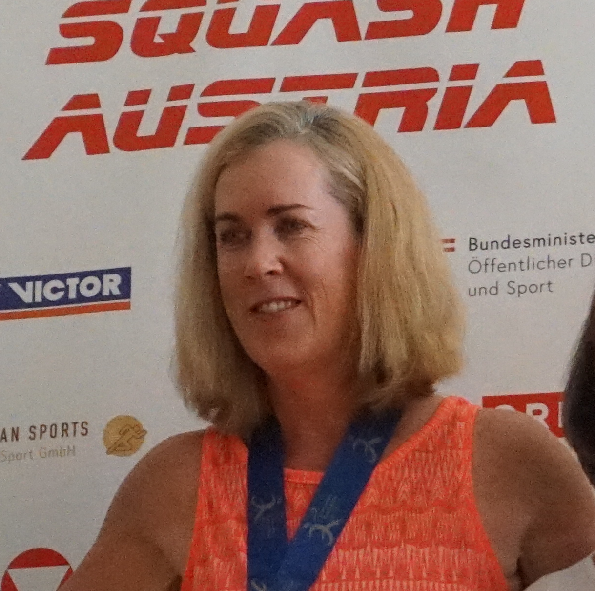 WO45 1st Orla O'Doherty (IRL), 2nd Melaine Moore (NOR), 3rd Sarah Parr (ENG)